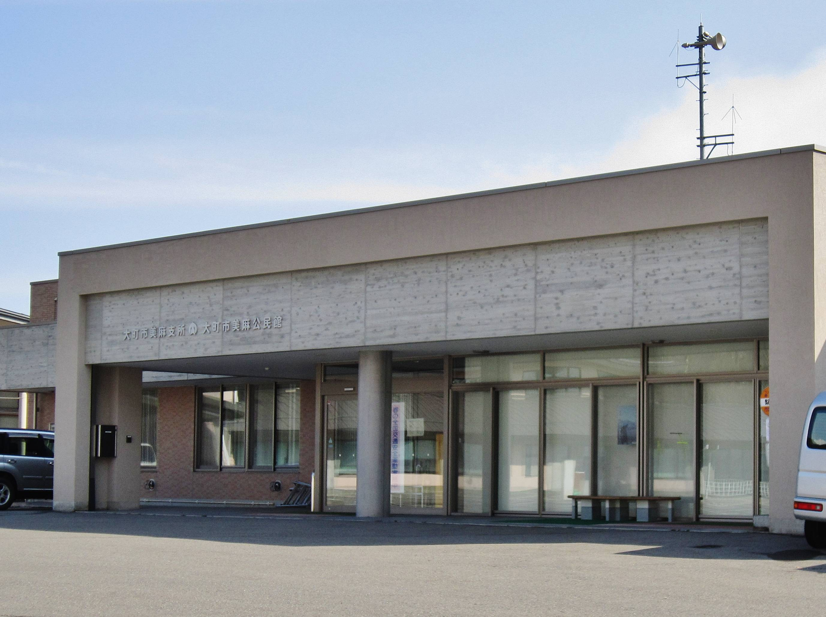 Ōmachi city Miasa branch office (Miasa kominkan).